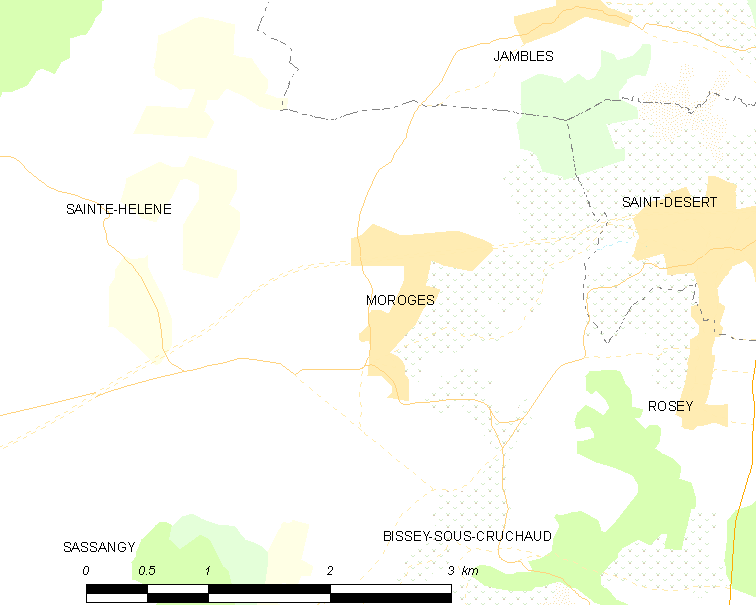 Map of French municipality